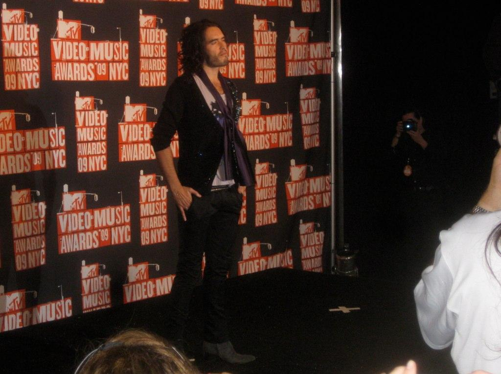 Russell Brand at the 2009 MTV Video Music Awards.